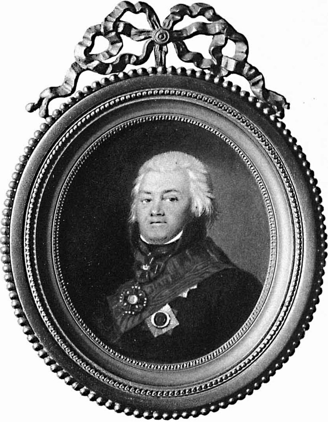 Arkharof, Ivan Petrovich (1744-1815), general of the infantry. This image is available from the New York Public Library's Digital Library under the digital ID 1230482: → This tag does not indicate the copyright status of the attached work. A normal copyright tag is still required. See Commons:Licensing.